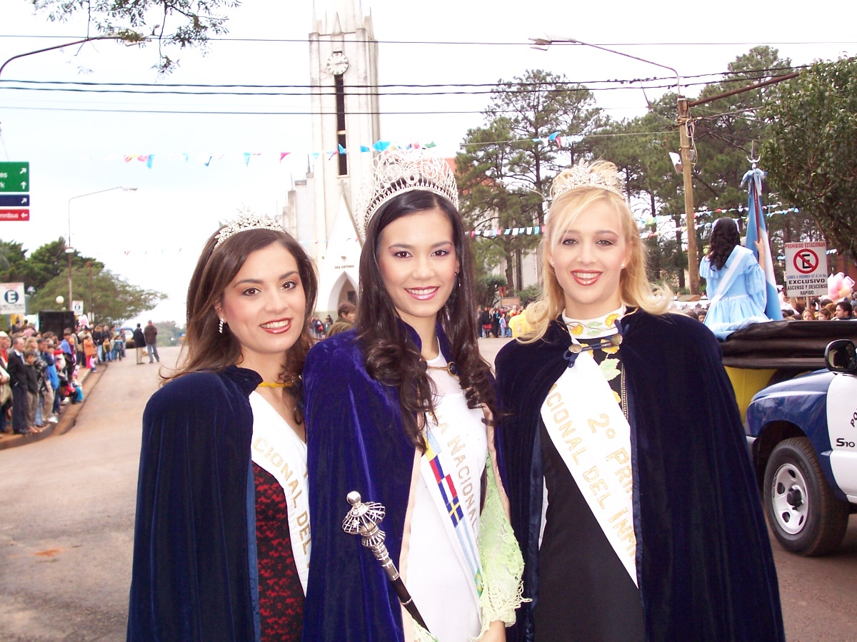 Picture of National Queen of the Immigrant (center), 1° princess (left) and 2° princess (right) from the year 2004, in the beginning of XXVII National Immigrant's Festival, in Oberá city, Misiones, Argentina. In the background, the Catholic church San Antonio.